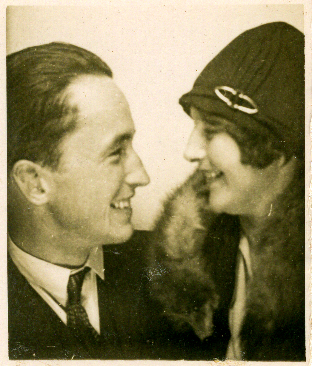 Honeymooners Jacob and Hedvig Bjerknes